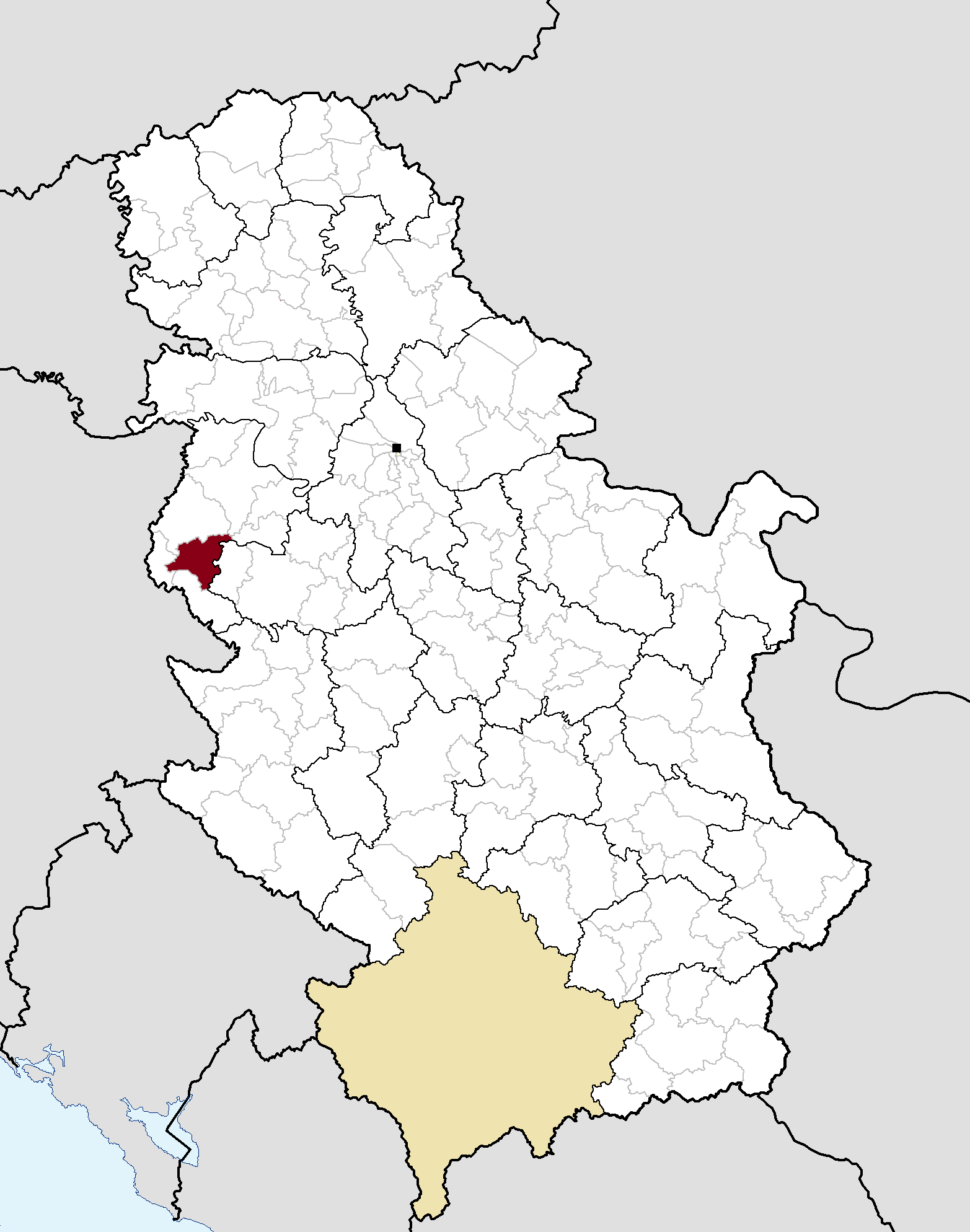 Municipal location in Serbia